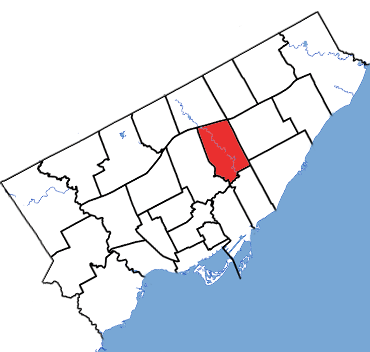 Don Valley East in relation to the other Toronto ridings (2015 boundaries)